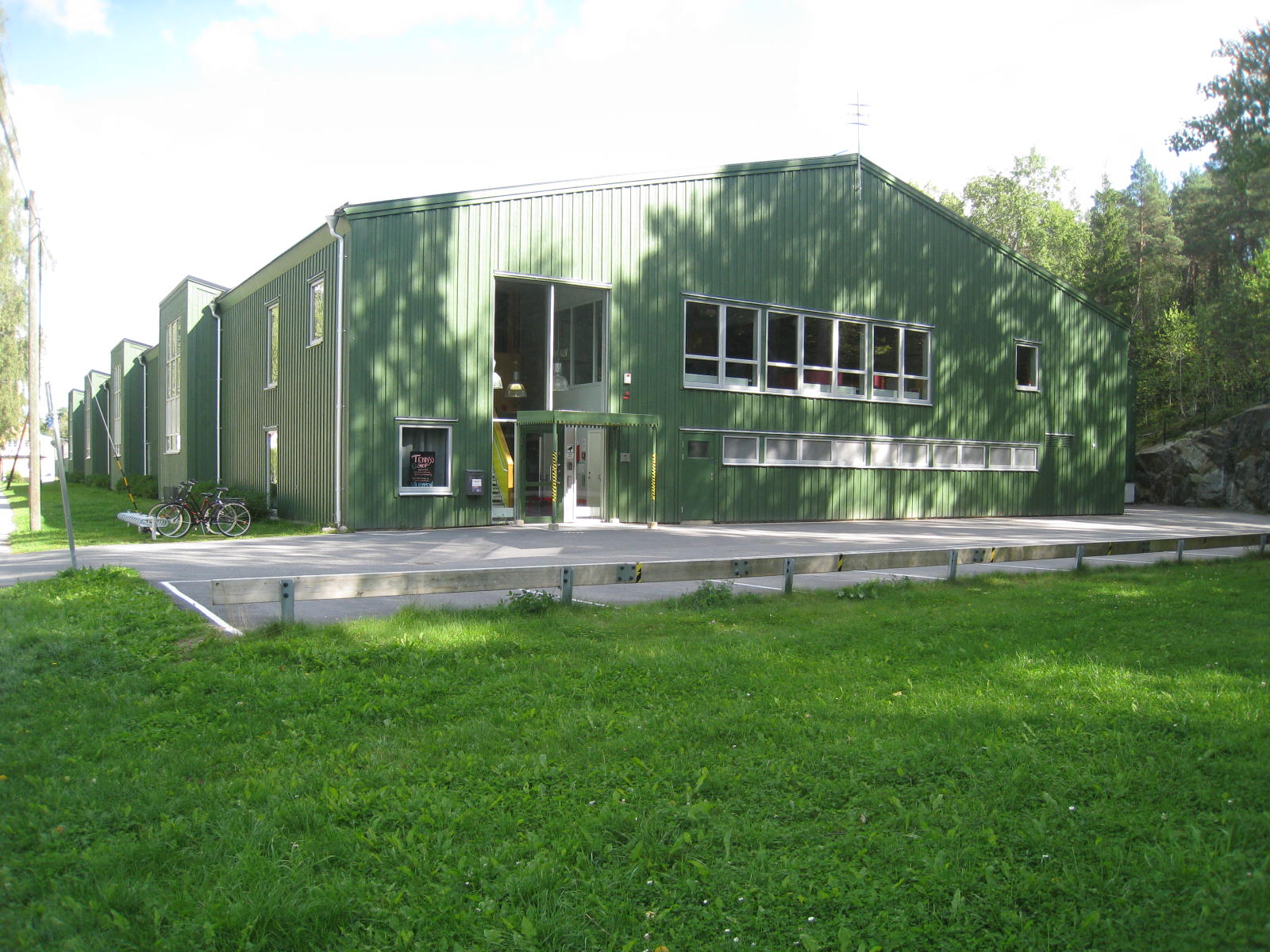 The covered tennis court at Smedslätten, Alviksvägen 161, Bromma, western Stockholm.